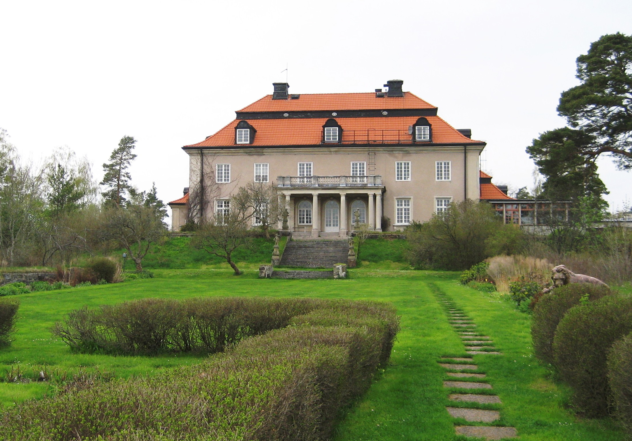 Stensunds slott, Trosa kommun, Södermanland, Sweden